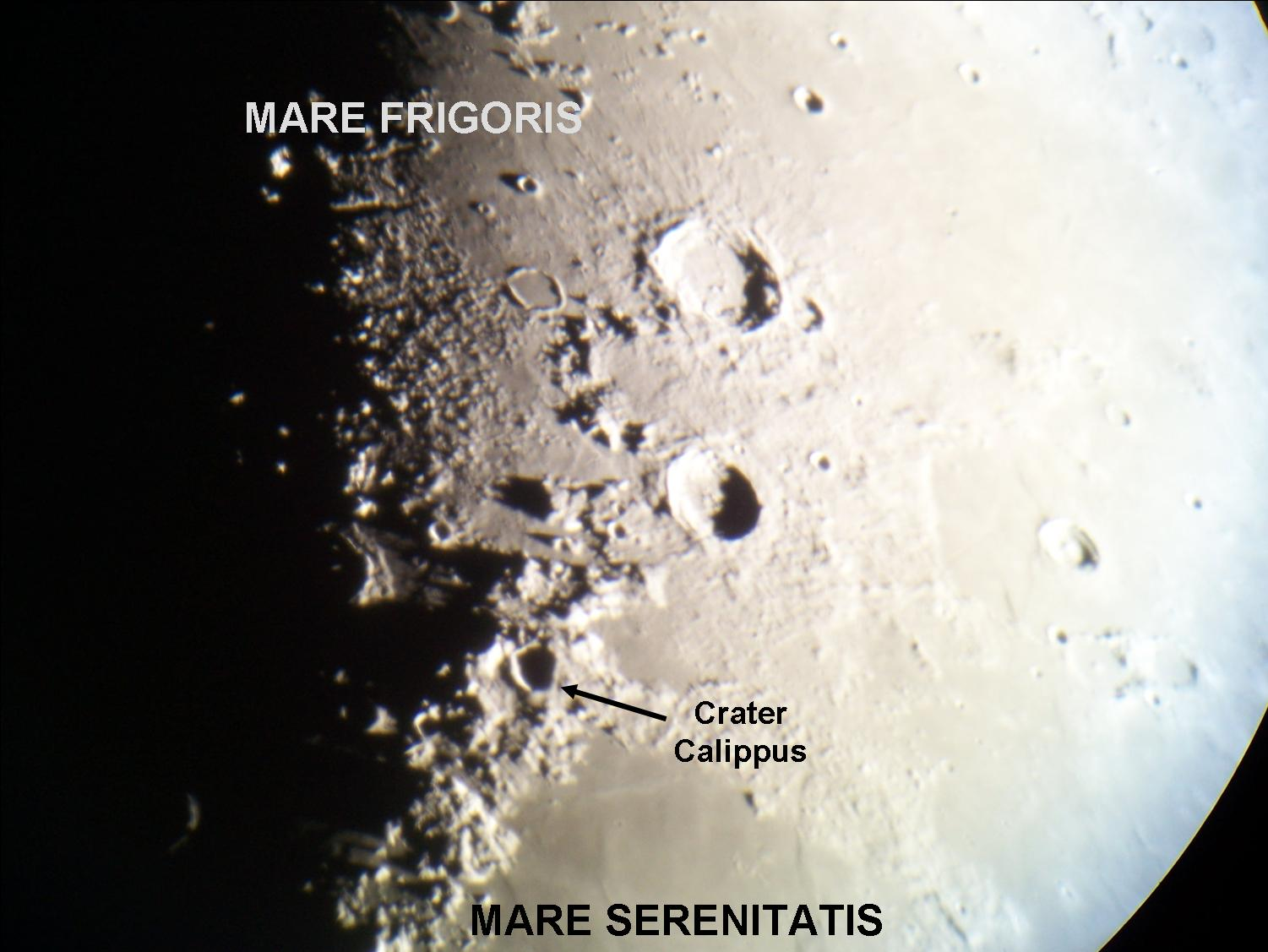 Crater Calippus photographed by Eric S. Kounce of the West Texas Astronomers ( on October 28, 2006 from the McDonald Observatory's 36-Inch Telescope.